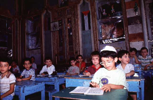 Photo of Pupils in the (Jewish) Maimonides school taken on February 9, 1991 in ‘Amārah al Juwwānīyah, Damascus, Syria. This school was in the historic Maison Lisbona in Damascus. Photo taken shortly before the exodus of most of the remaining Syrian Jewish community in 1992.